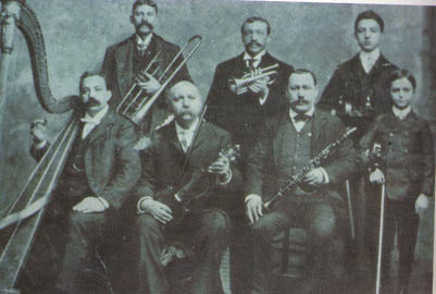 Viggianesi musicians in Chicago